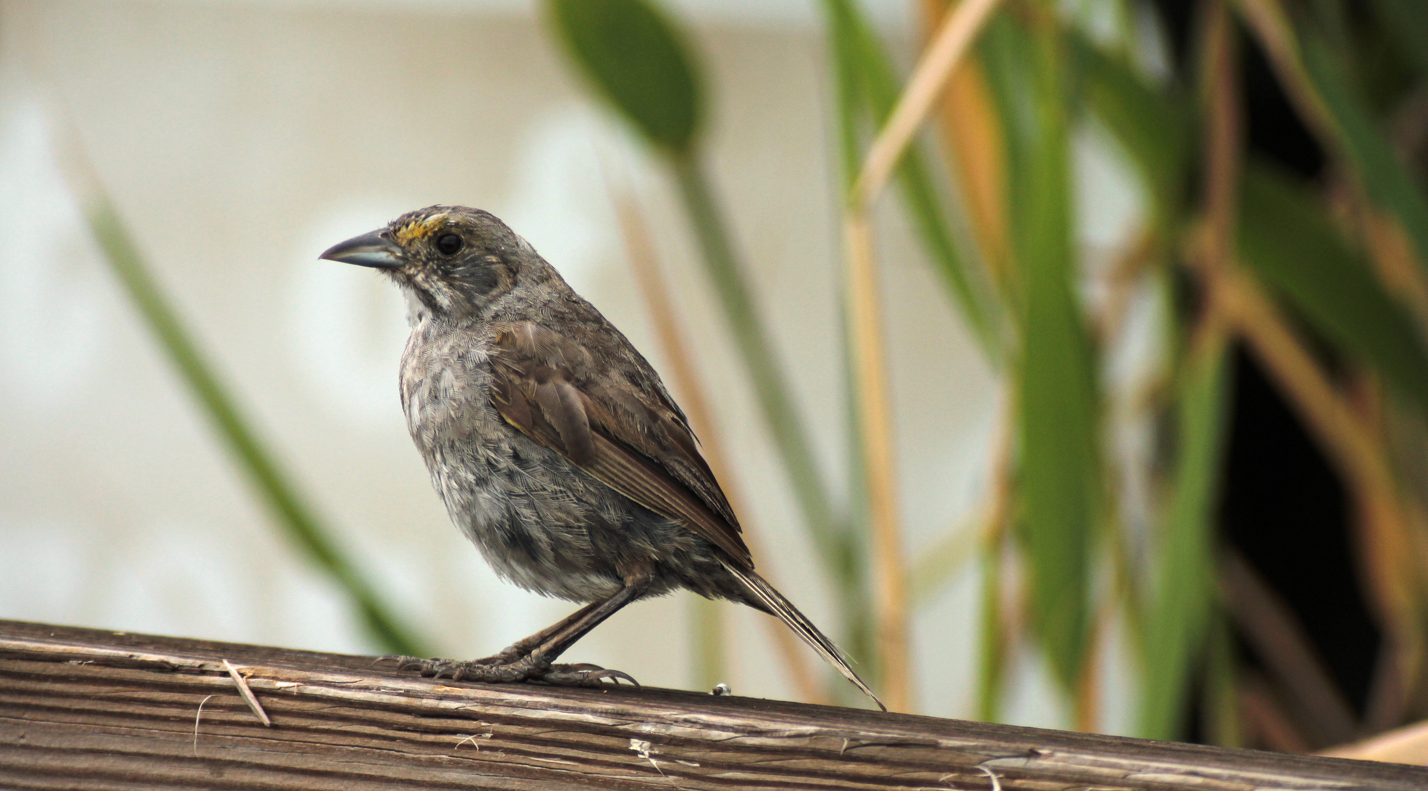 Bayshore salt marsh observation platform, near Thompson Beach in Cumberland County, NJ